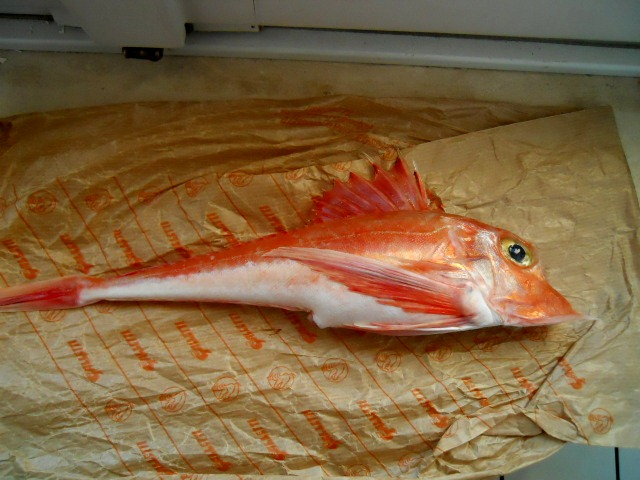 Trigla lyra collected on Grosseto fish market (Tuscany, W-Central Italy). Photo by Massimiliano Marcelli.